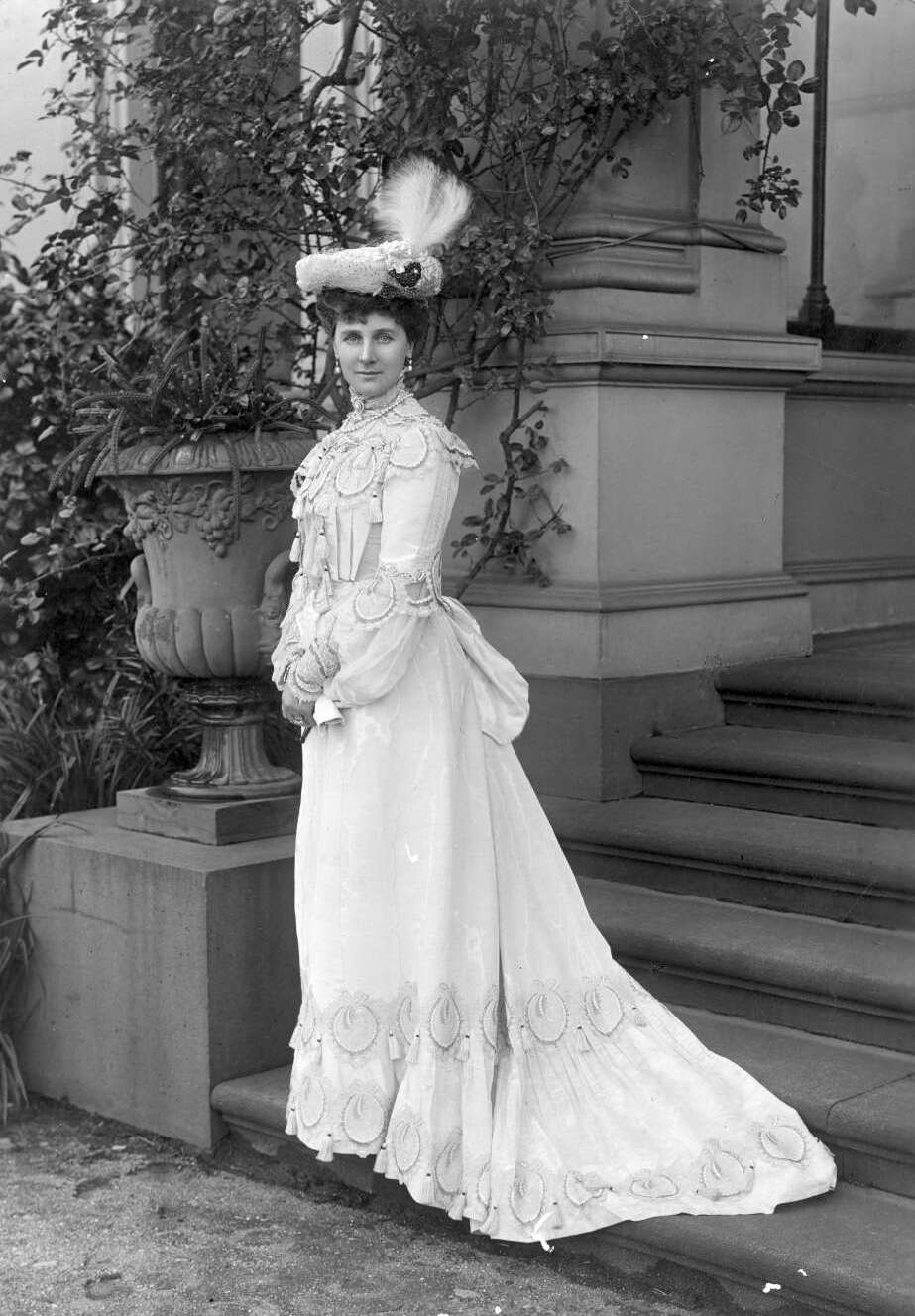 Alice S. Northcote, Baroness Northcote, wife of the third Governor-General of Australia